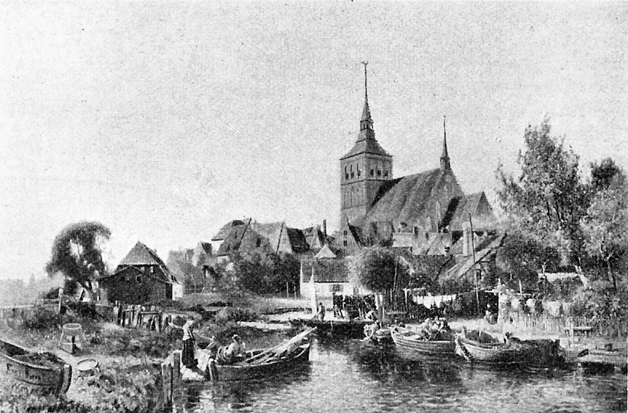 Franz Bunke - Fischerbruch in Rostock with Nikolai-Church